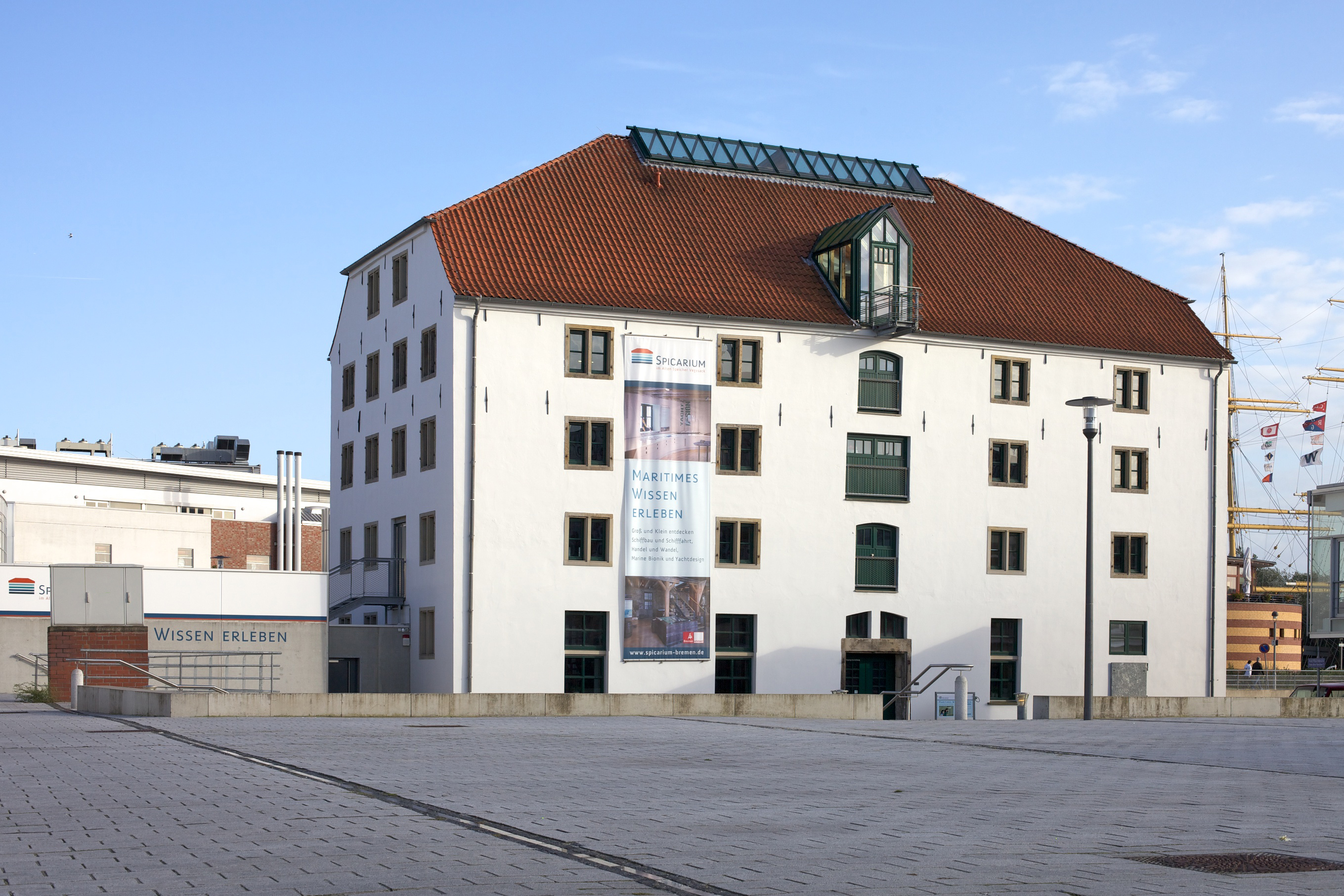 Vegesack harbour - old storehouse - SPICARIUM